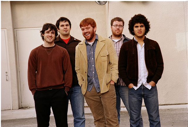 This is a picture of the rock group Before Braille shortly after their album, "The Rumor." (left-right) David Jensen, Hans Ringger, Kelly Reed, Brandon Smith, Rajiv Patel.